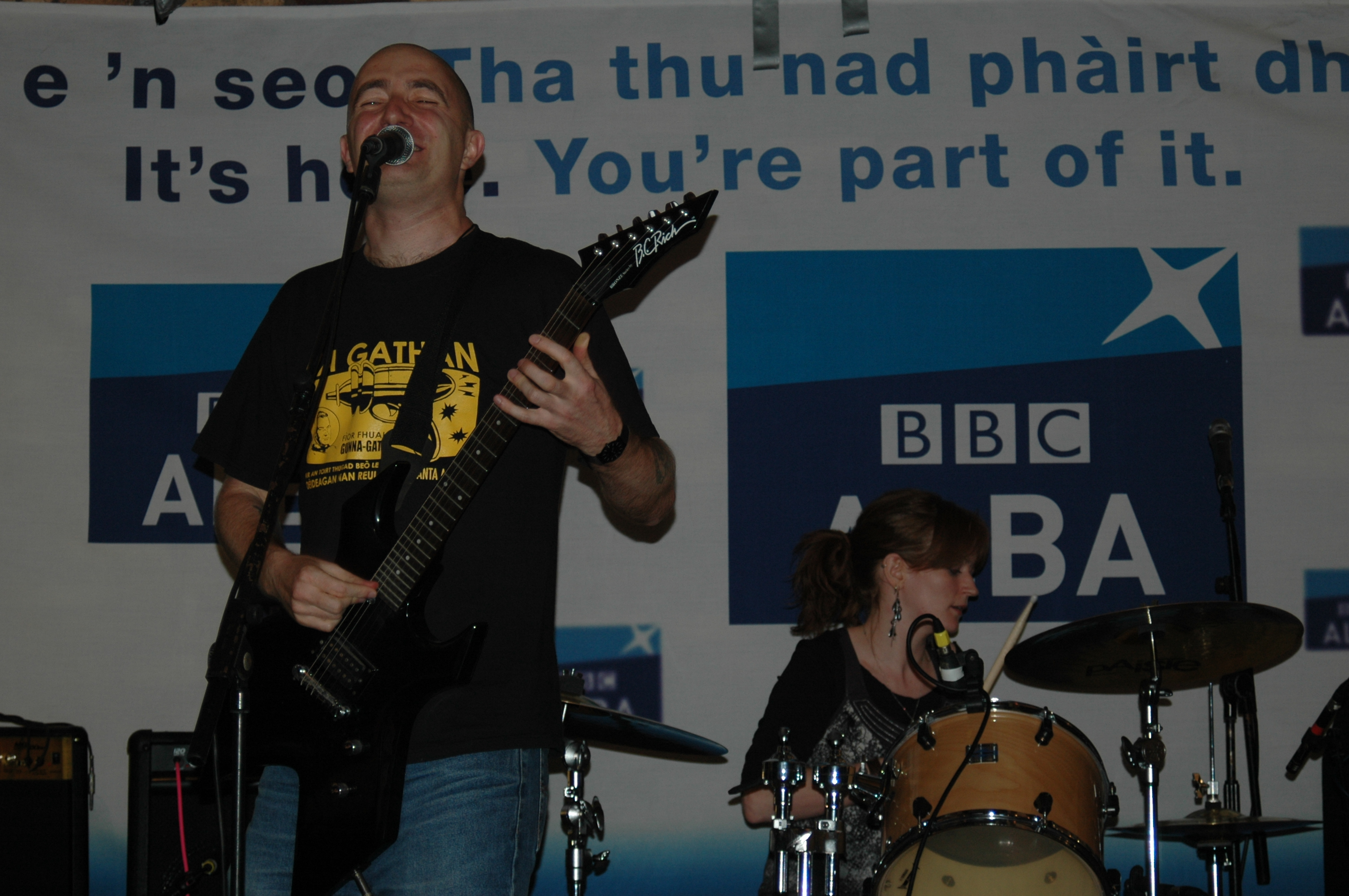 Na Gathan a' cluich aig Behind the Wall, Mod na h-Eaglaise Brice, Damhair 2008